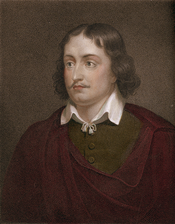 Claude Lorrain (1600-1682) on engraving from the 1800s. French Baroque artist best known for his landscape paintings [1]